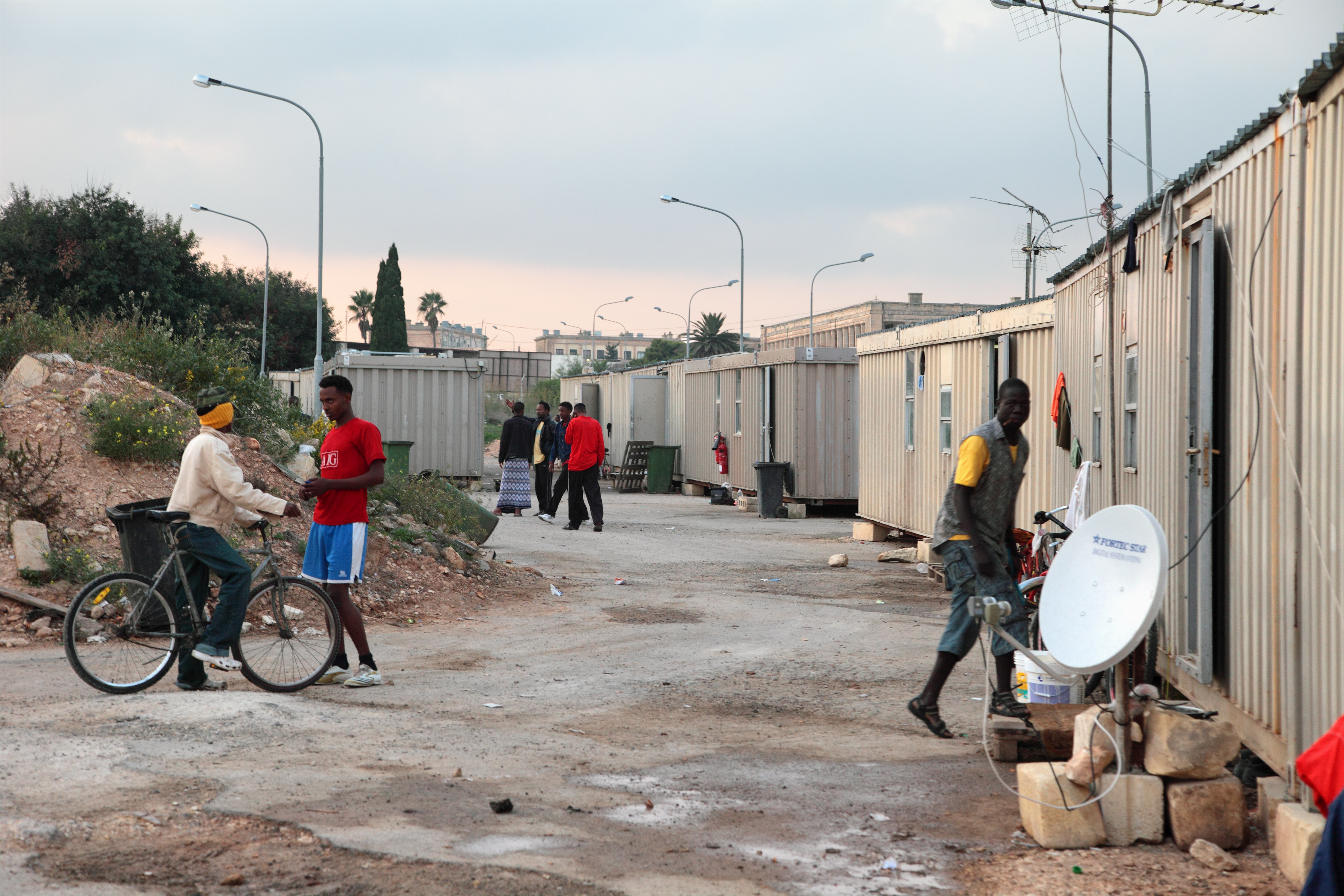 Malta, Hal Far: construction site sheds, open centre for refugees (mostly boatpeople from Africa)